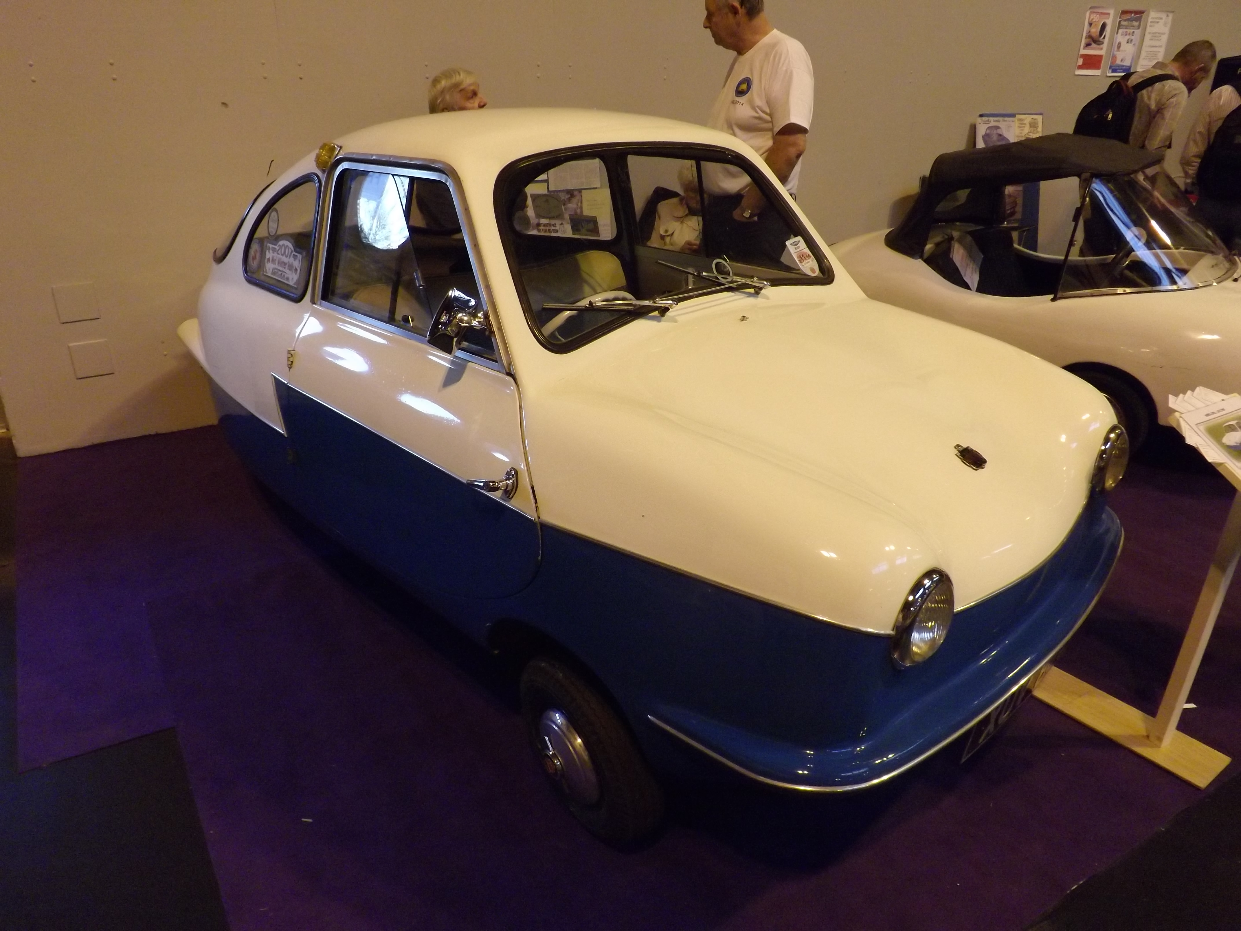 The Fuldamobil S7 was built in Germany. Variations were built in other parts of the world. The Nobel as made in Belfast by Harland and Woolf (like the Titanic!!).